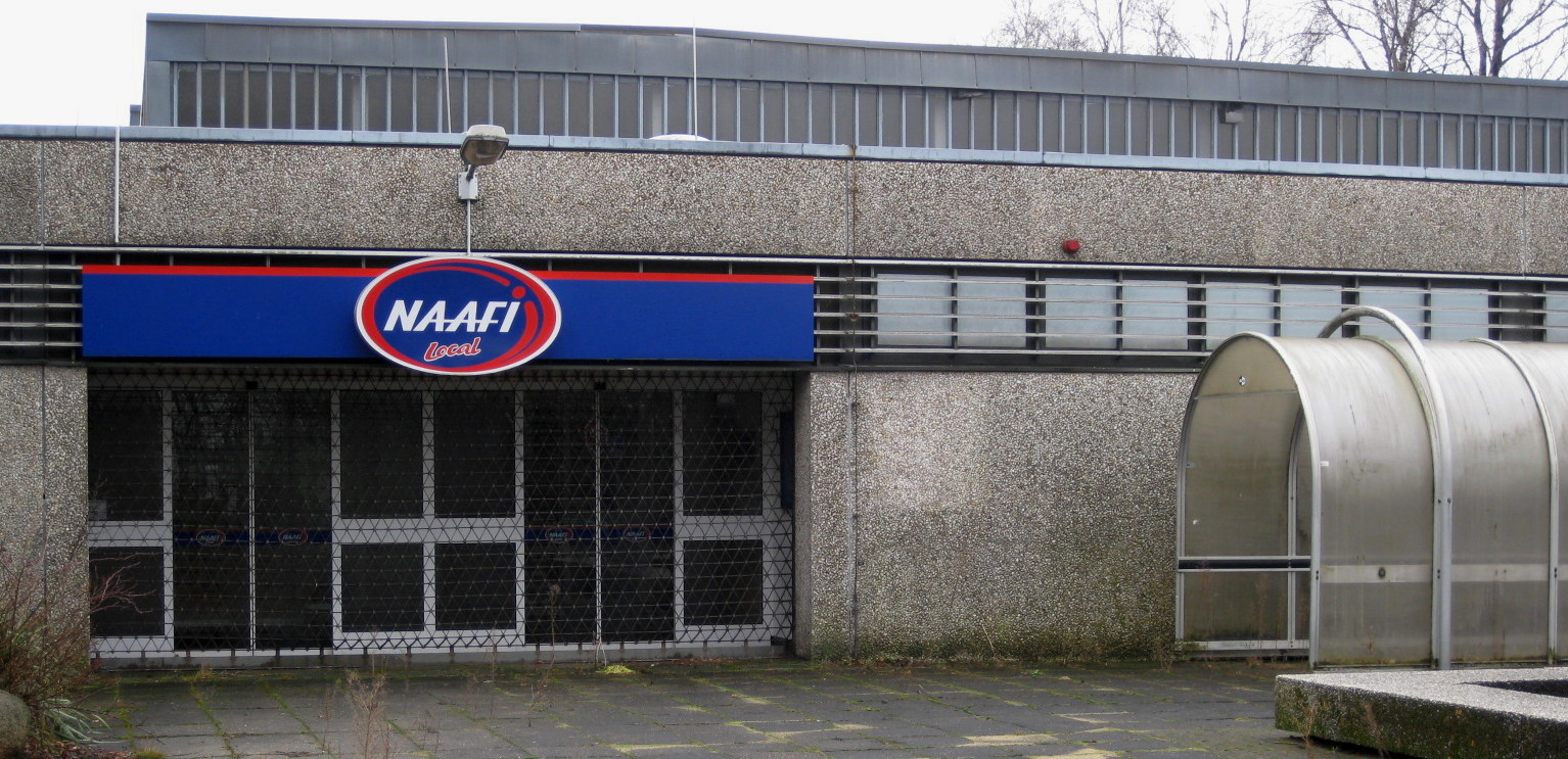 Former NAAFI building in Osnabrück, Lower Saxony (Germany)